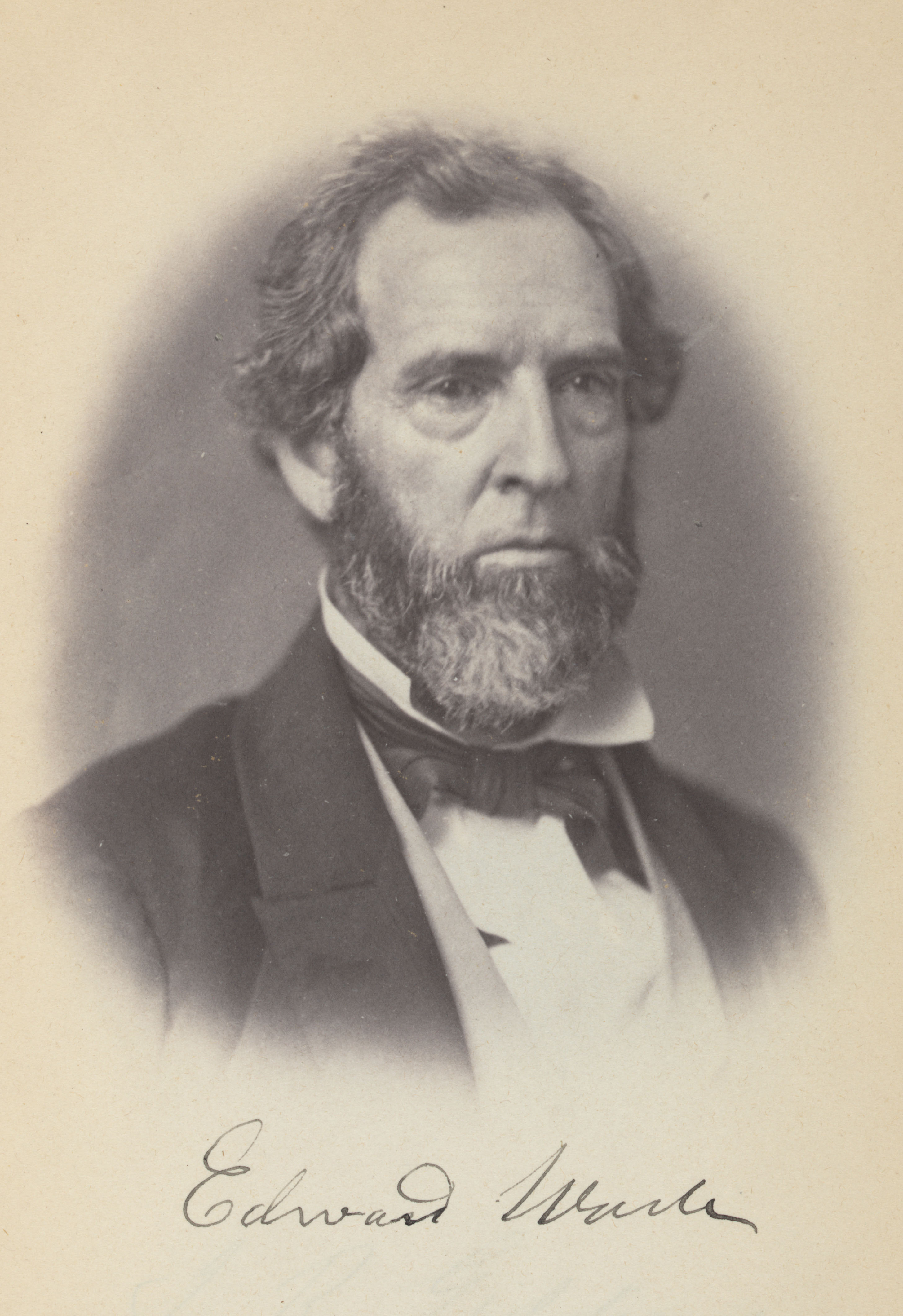 Edward Wade, US Rep. from Ohio from (1859) McClees' gallery of photographic portraits of the senators, representatives & delegates to the thirty-fifth Congress, Washington: McClees and Beck, p. 211 .